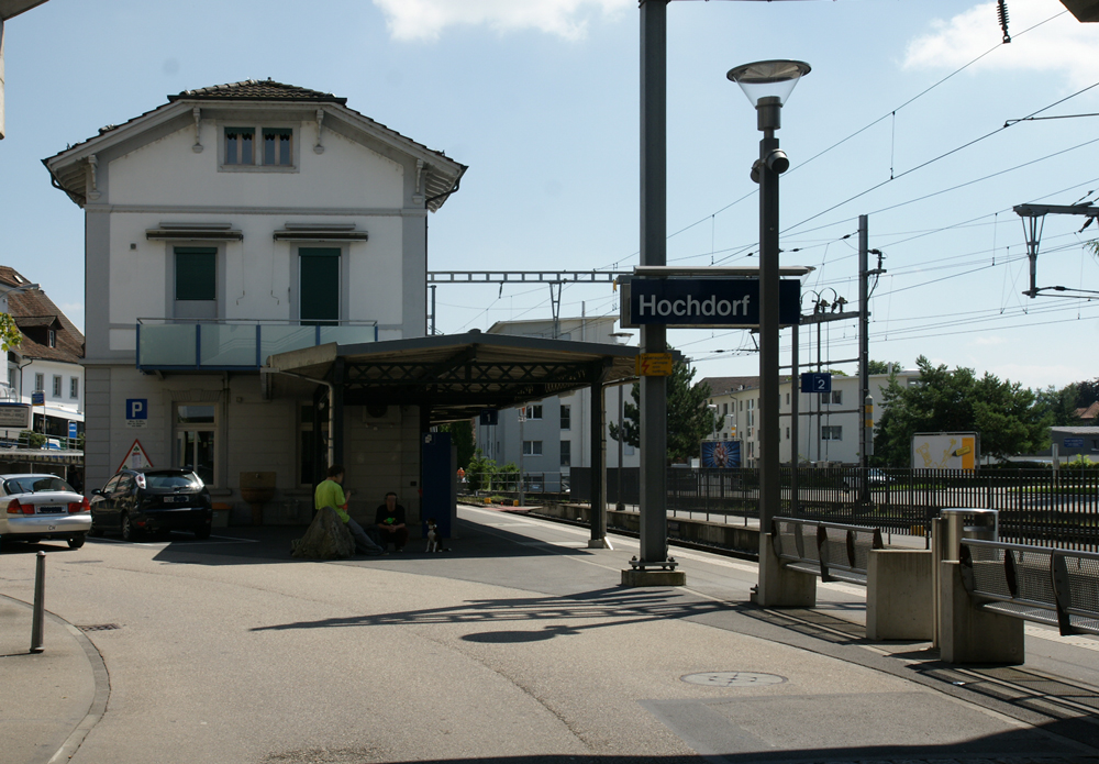 Hochdorf LU, Railwaystation